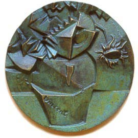 Hommage à Vincent van Gogh, bronze, cast, 100 mm